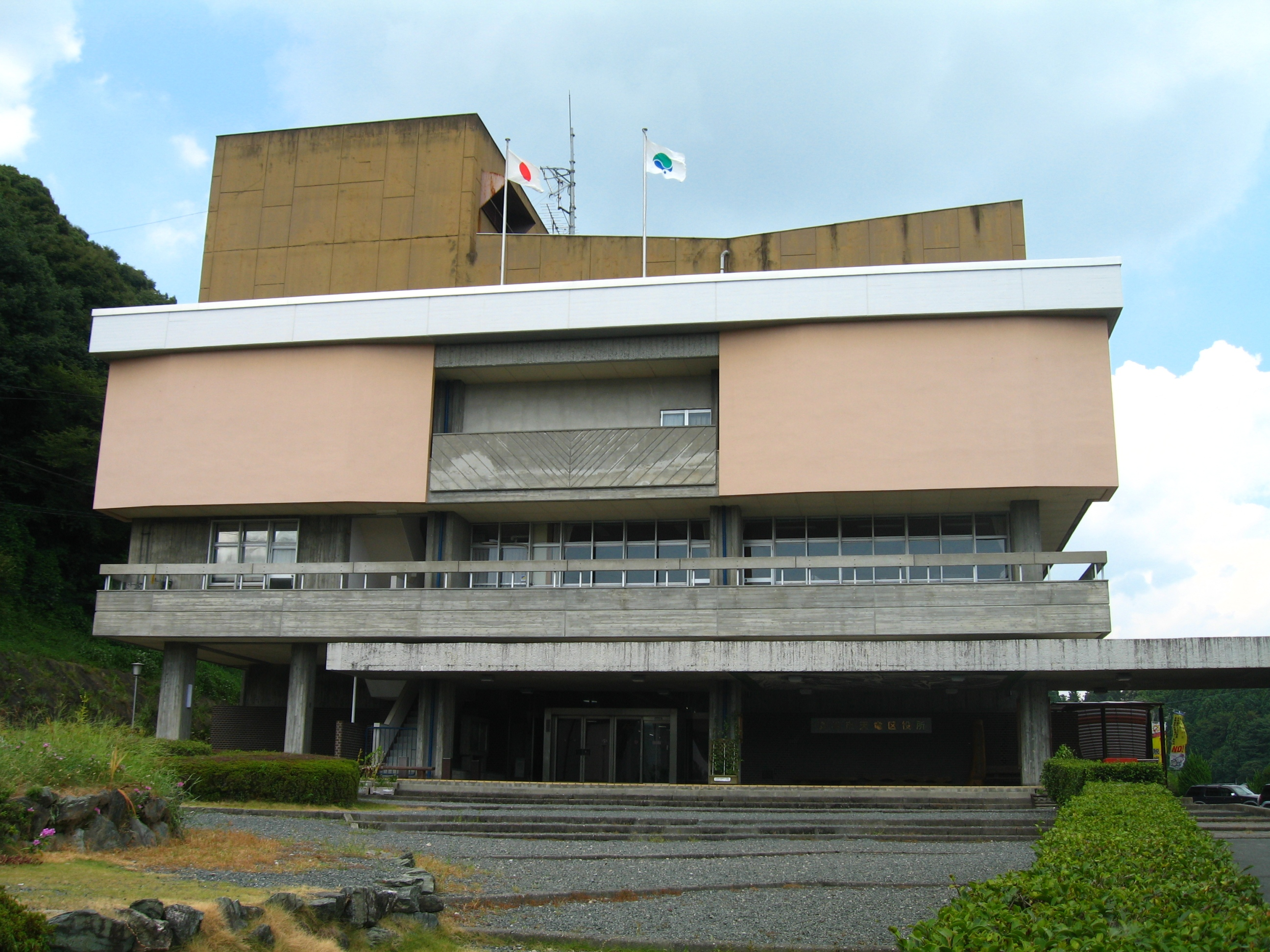 Former Tenryu Ward Office (Former Tenryu city office) in Hamamatsu City, Japan